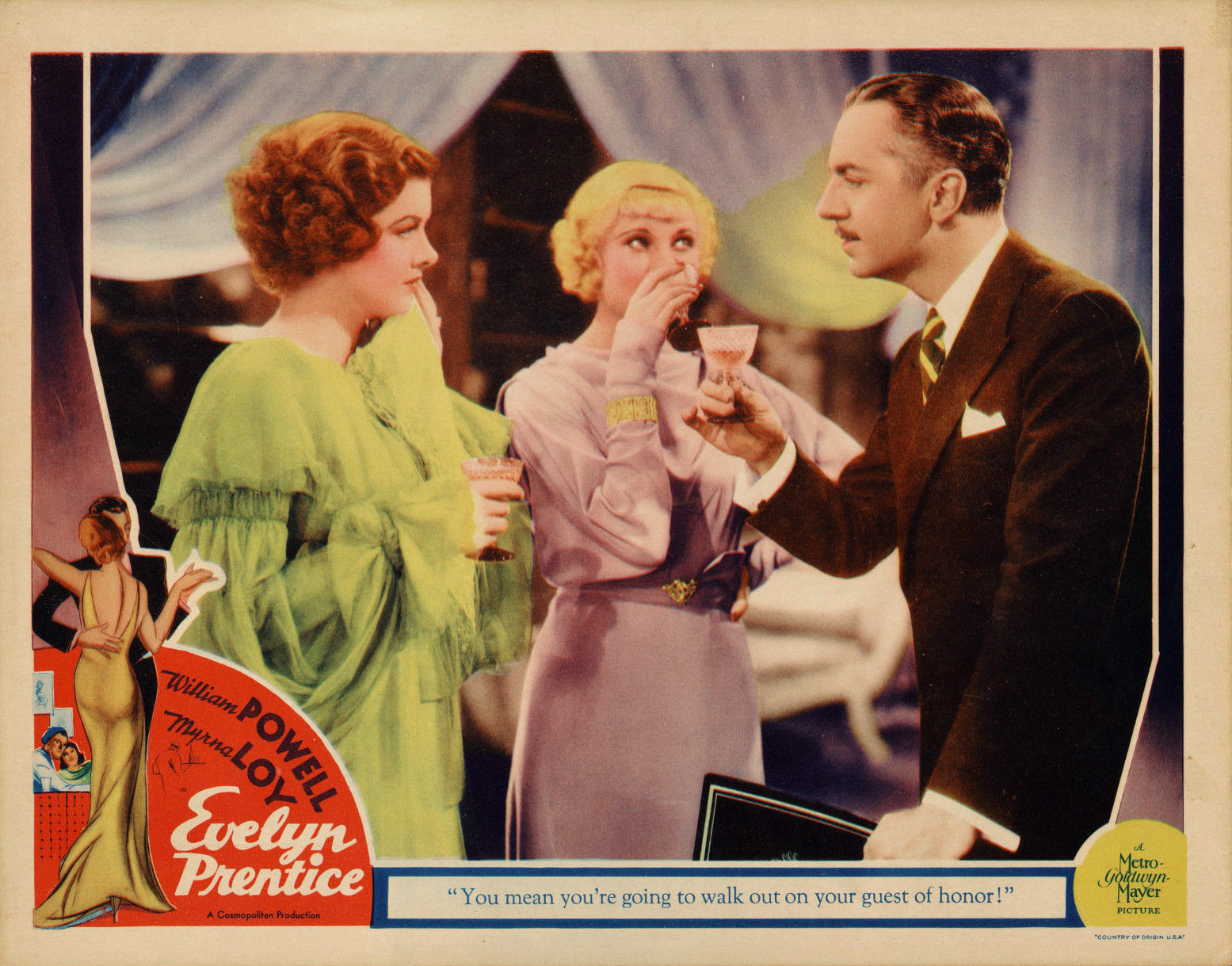 Lobby card for the 1934 film Evelyn Prentice.